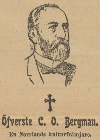 Obituary engraving of the Swedish politician Carl Otto Bergman (1828-1901), by an anonymous artist. Published in the newspaper Göteborgs Aftonblad 1901-06-22 (143A), p. 3.